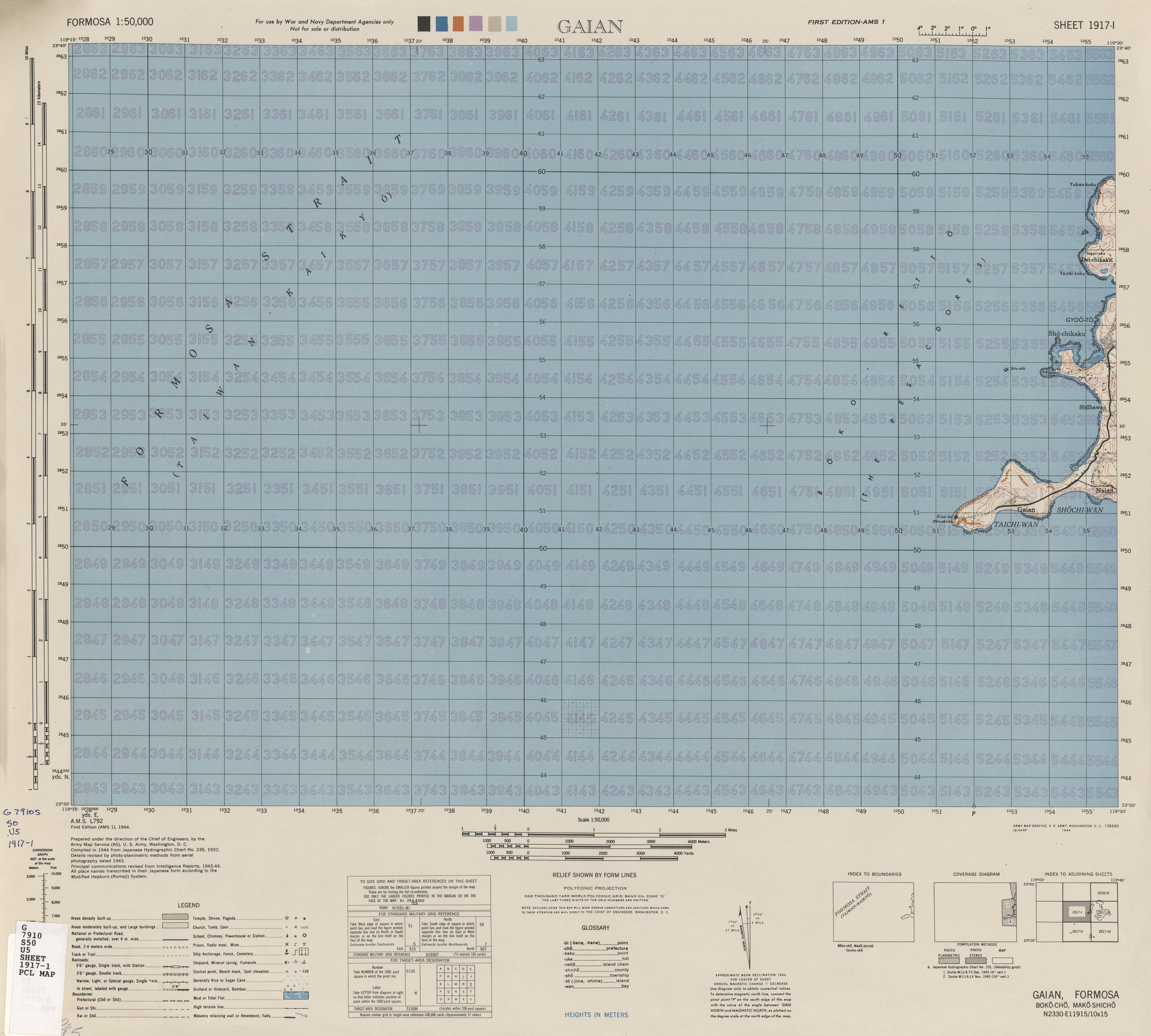 Map from Series L792